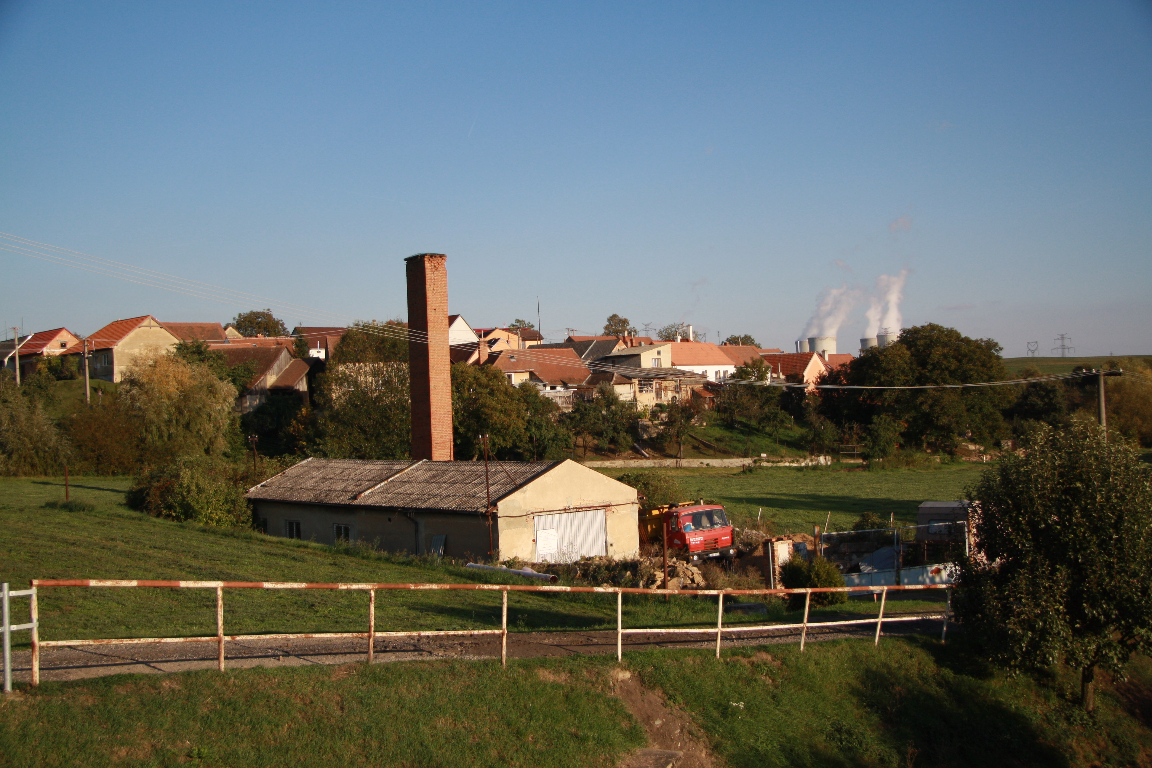 Overview of Slavětice, Třebíč District